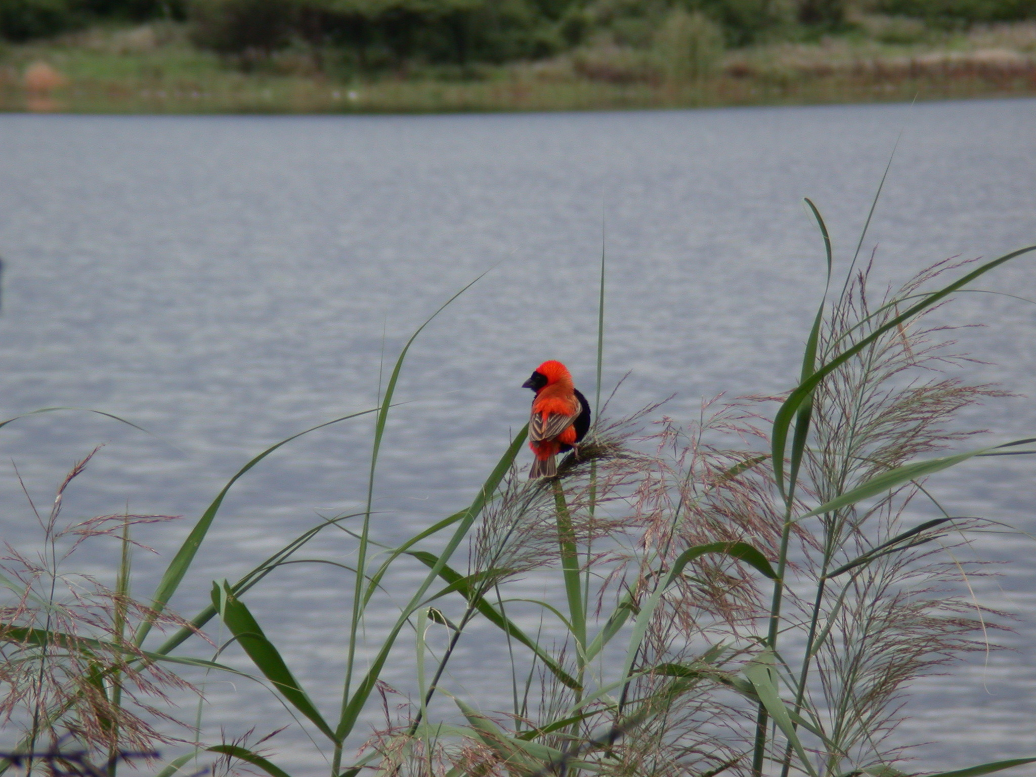 Euplectes orix (Oryxweber en: Northern/Southern Red Bishop nl: Grenadierwever) Male, picture taken at the Goreangab Dan near Windhoek, Namibia